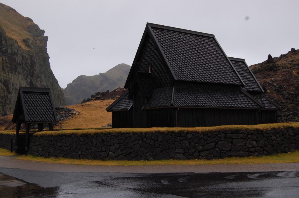 In approx 1000 AD King Olav Tryggvason of Norway sent missionaries to Iceland with the instruction to build a church wherever they reached the shore. At the 1000th anniversary of this remarkable event, the current Norwegian government made the decision to build another church at approximately the same location. The church was built in Norway as a copy of Haltdalen stave church in Trøndelag folkemuseum, Trondheim, Norway. When finished it was transported to its current location, and apparently assembled in two days.